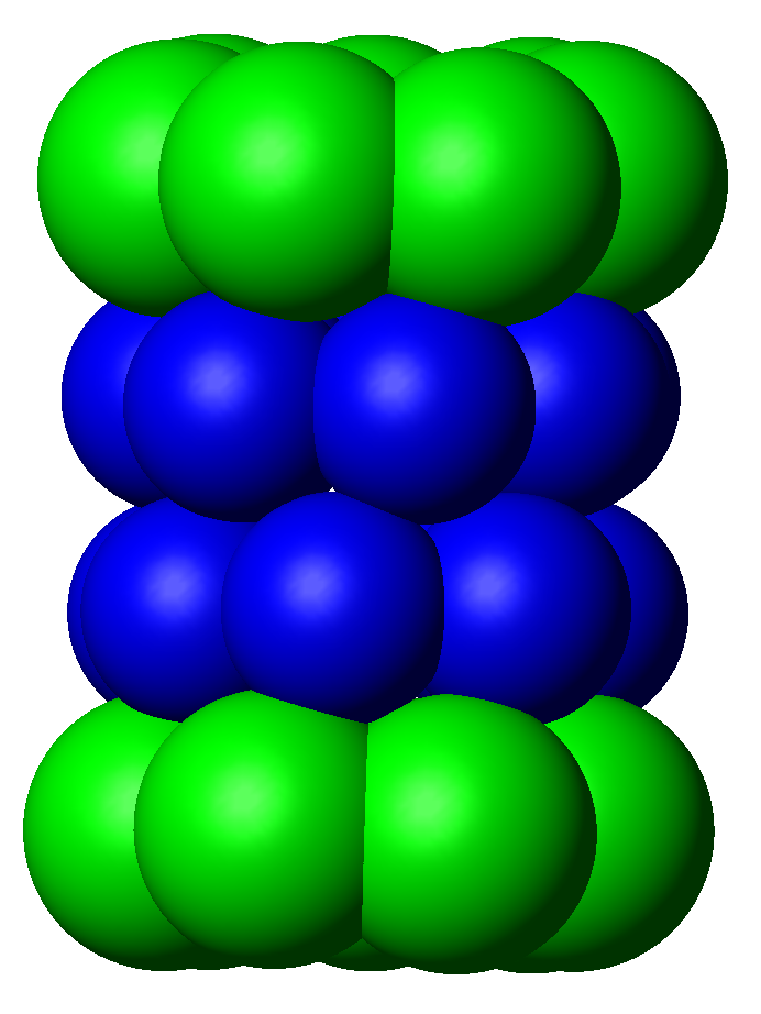 Sideview of the 20S yeast (S. cerevisiae) proteasome (PDB accession code 1G0U). The alpha subunits are shown as green spheres centered on the CB atom of Leu137, which is only 3.44 Å from the position of the true centroid; their radius is 25.0 Å, which is twice the longest principal axis of the equivalent ellipsoid. (For comparison, the radius of gyration is 18.0 Å.) The beta subunits are shown as blue spheres centered on the CA atom of residue 44, which is only 3.2 Å from the position of the true centroid; their radius is 21.0 Å, which is twice the longest principal axis of the equivalent ellipsoid. (For comparison, the radius of gyration is 15.2 Å.) This figure was made by me on 12 December 2006 using MOLMOL and my own GPL software, and is released under the GFDL, especially to Opabinia regalis. ;)